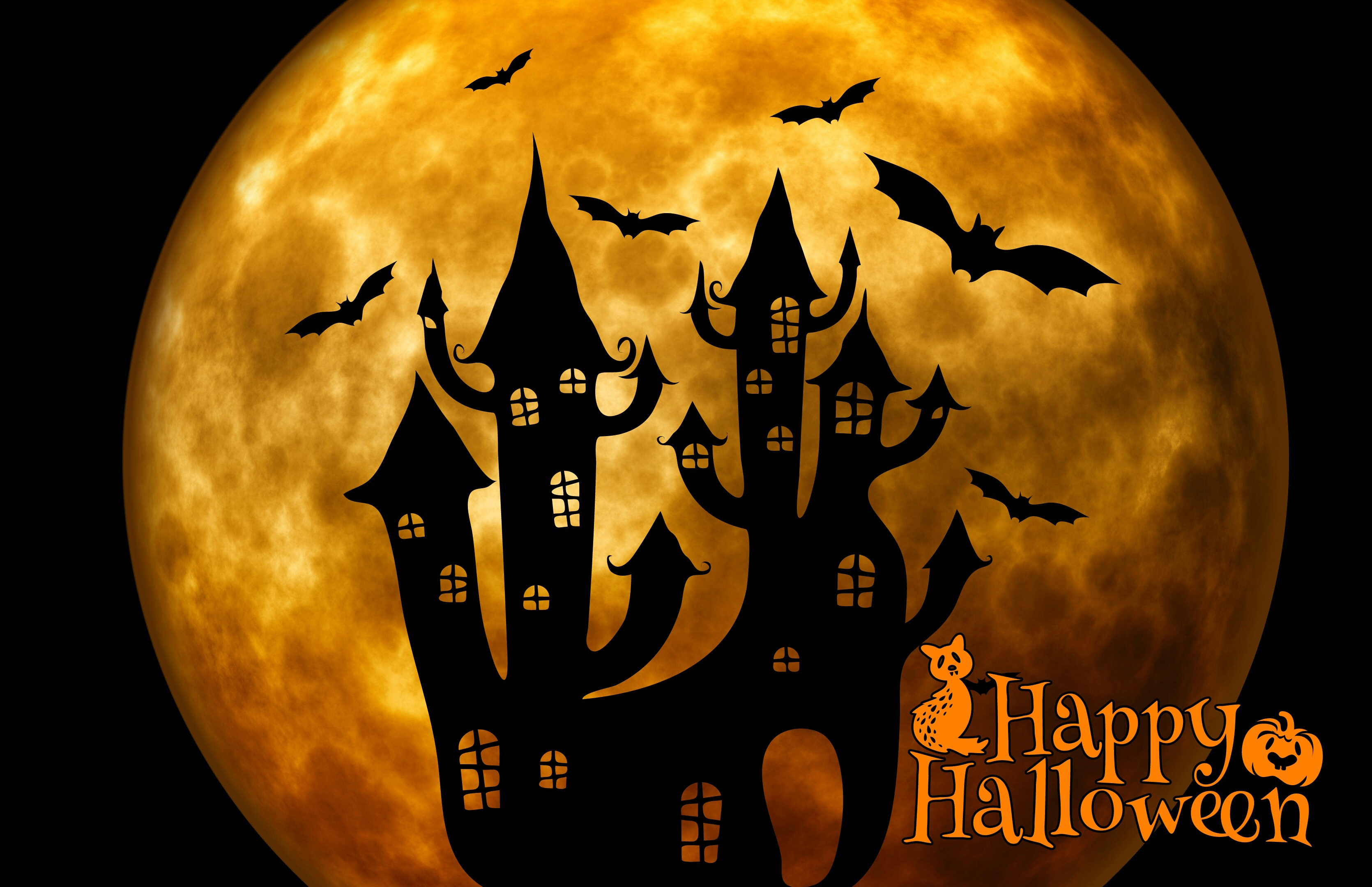 Bats, haunted house, full moon for a Happy Halloween